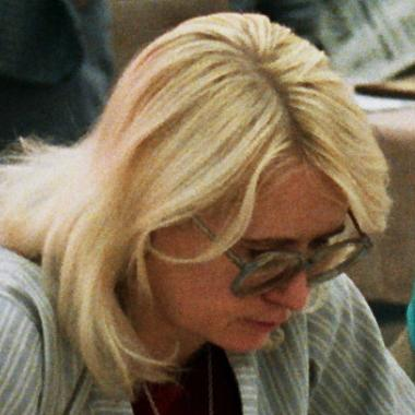 Hanna Erenska, Chess Olympiad 1988 in Thessaloniki, Photographer Gerhard Hund.